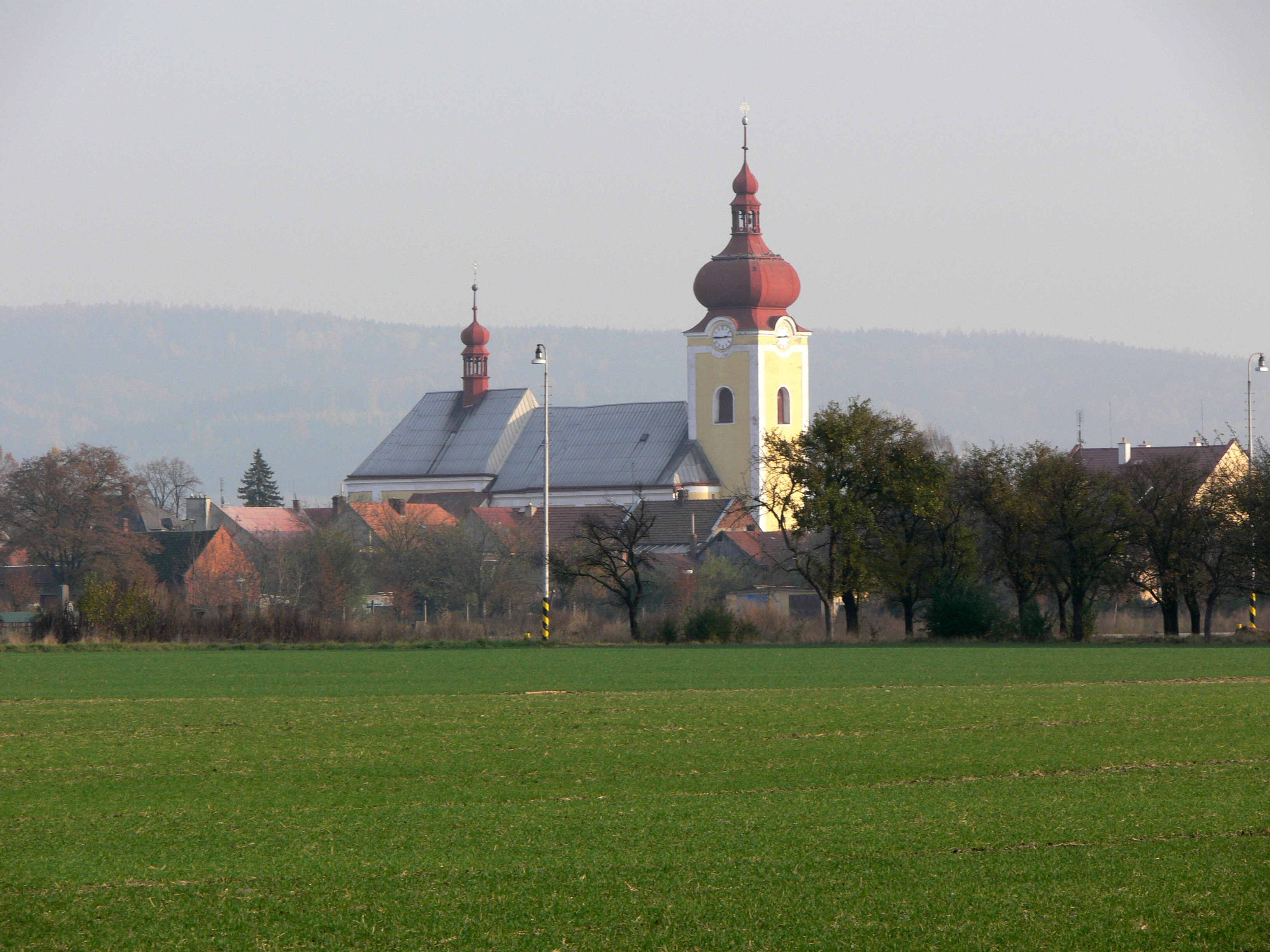 Bohuňovice, Olomouc District, Czech Republic.